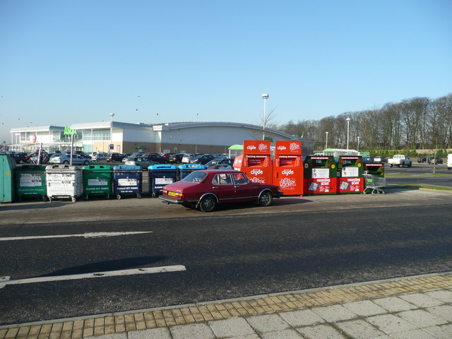 Recycling facilities at Asda The store is by Junction 2 of the M80 at Robroyston.